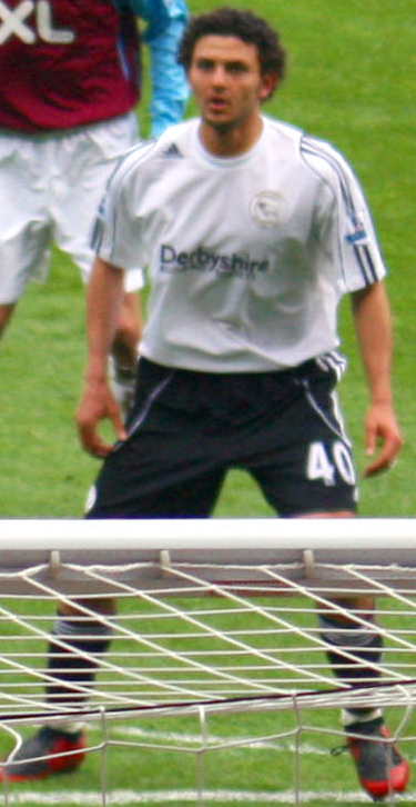 Hossam Ghaly. Image cropped from original at flickr.